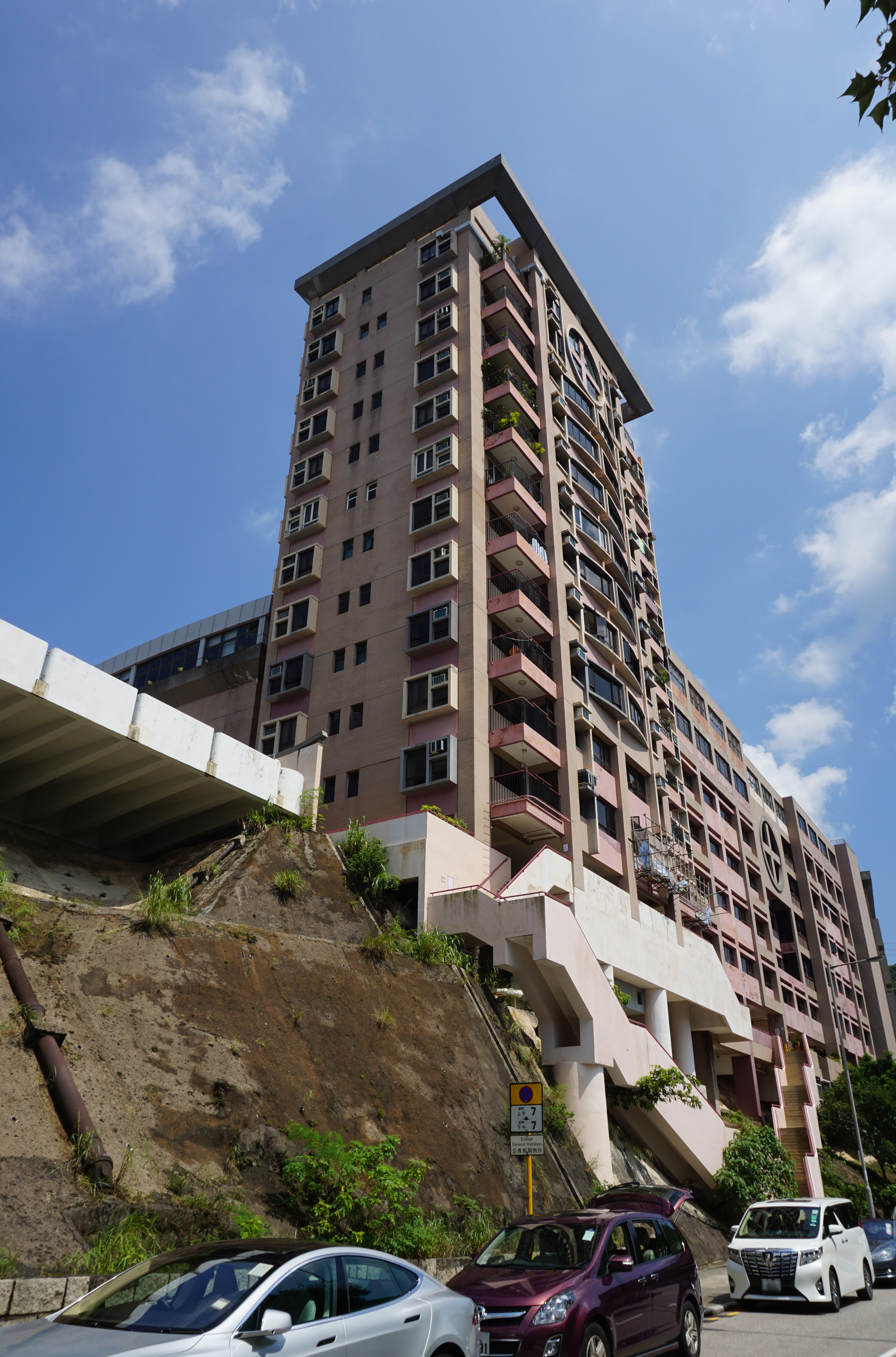 Chinese International School in Braemar Hill, Hong Kong.